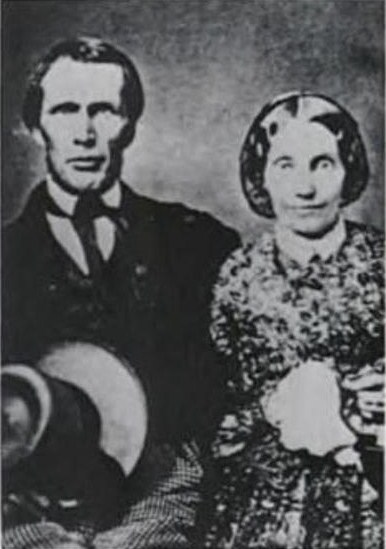 William Harrison Rice and his wife, Mary Sophia Hyde Rice, photographed together. They arrived in Hawaii in 1841 with the ninth company of missionaries to Hawaii from the American Board of Commissioners for Foreign Missions.